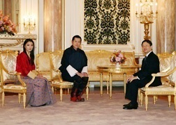 Bhutan royal visit Japan November 21, 2011